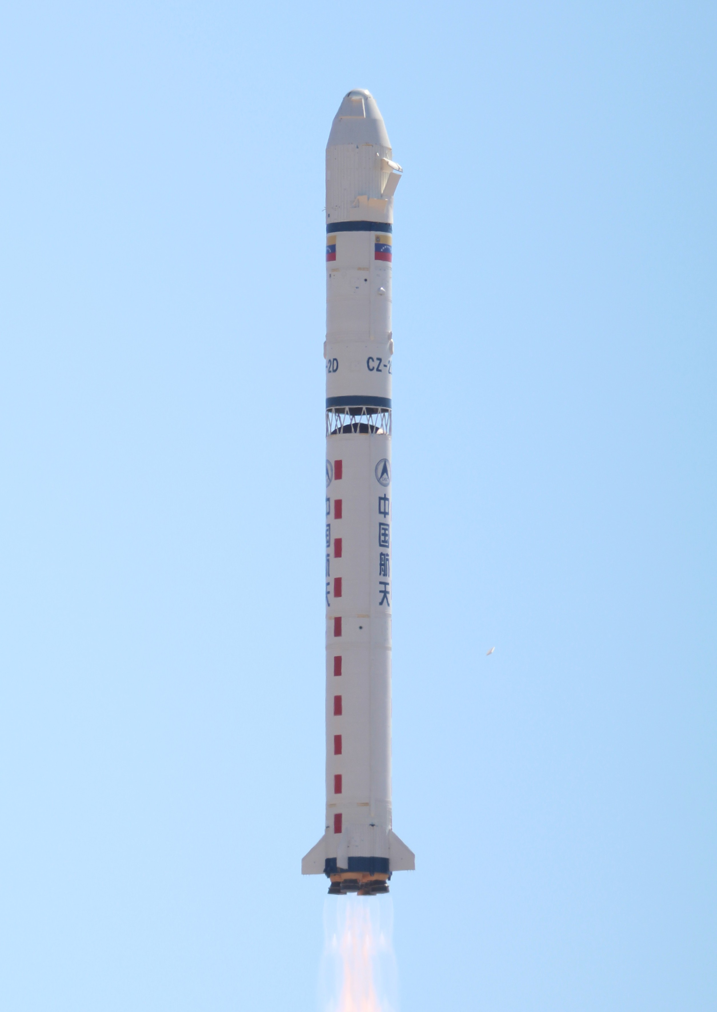 Launch of the first Venezuelan Earth observation satellite, VRSS-1 / Miranda, by the LM-2D launch vehicle. Apochromatic telescope 80 mm / 480 mm, Canon T3i. Location: Jiuquan Satellite Launch Center, Gansu Province, China.